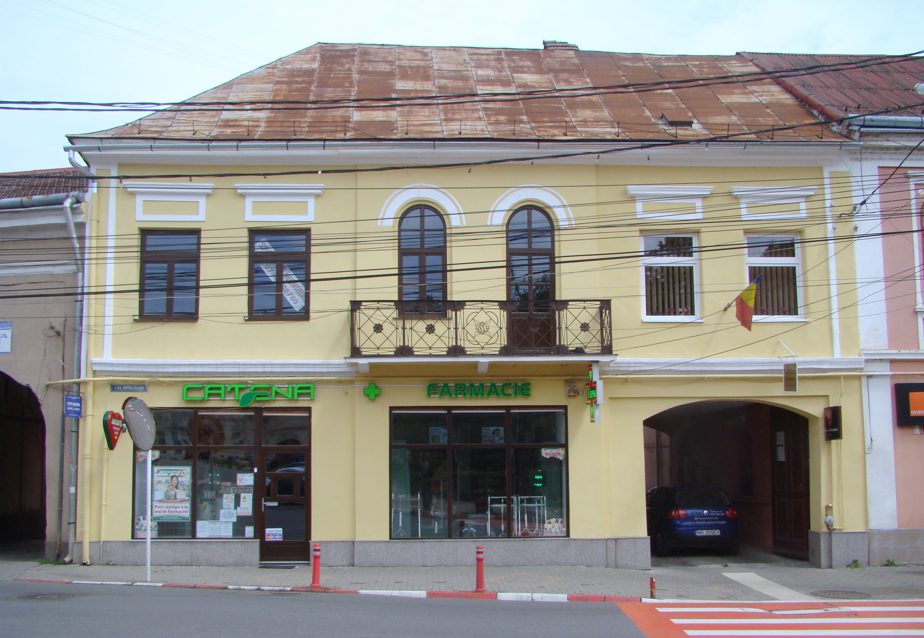 House, historic monument, in Reghin, Petru Maior square, nr.34